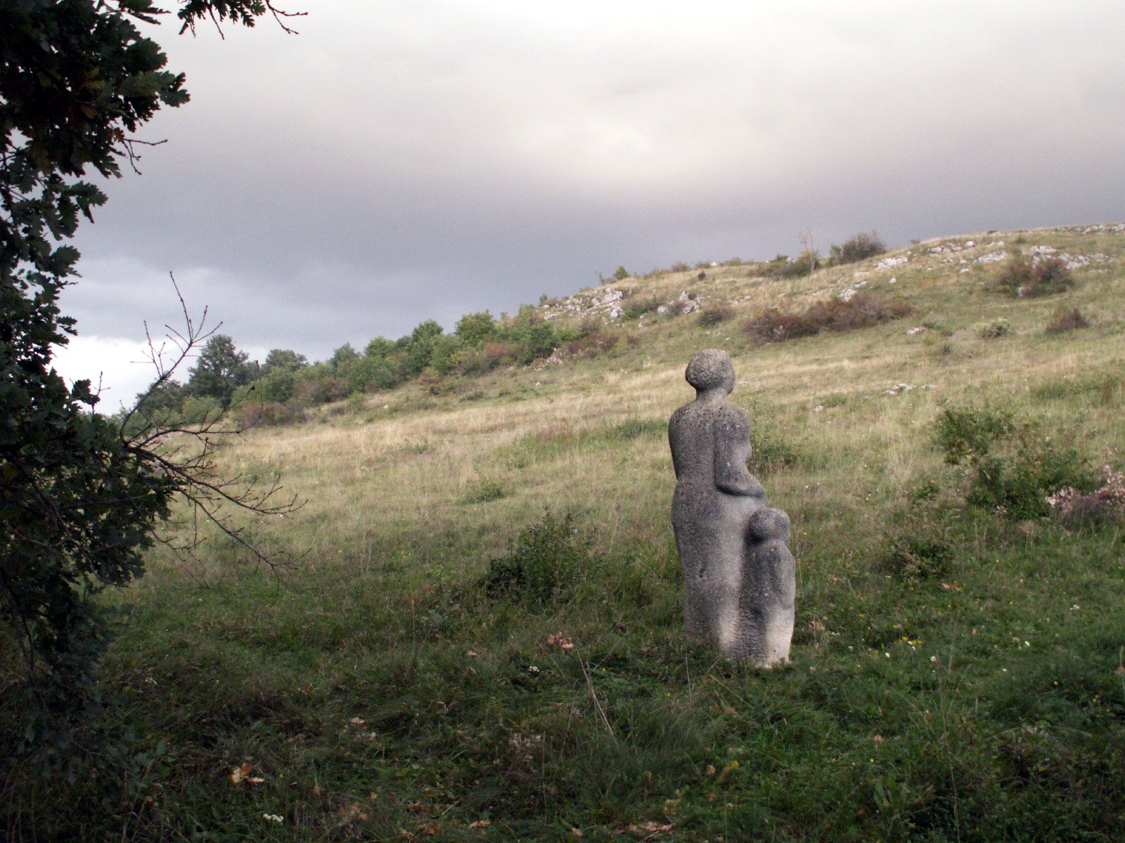 „Symposion Europäischer Bildhauer“, St.Margarethen – Burgenland/Austria, Dino Paolini, 1959